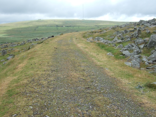 King's Tor: railway track (now cycleway) The railway line led to Princetown; it is now a cycleway across Dartmoor